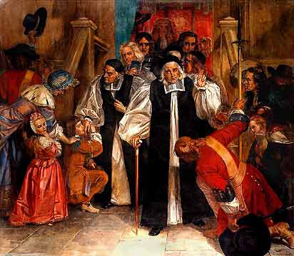 The Seven Bishops greet the crowd after their acquittal, June 29, 1688.